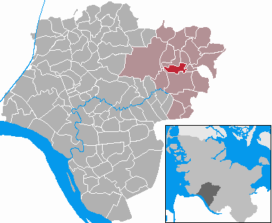 This map shows the area of the municipality Rosdorf in the Kreis (district) Steinburg, Schleswig-Holstein, Germany.